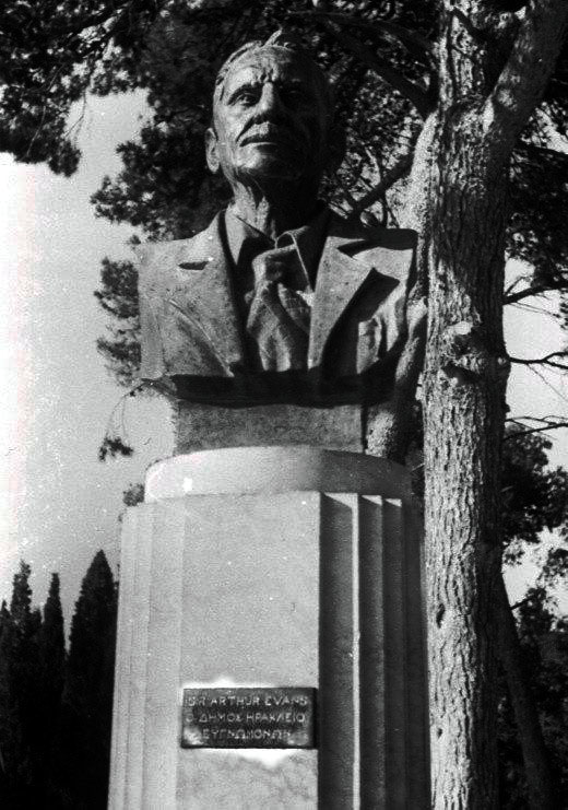 Statue of Sir Arthur Evans at Palace of Knossos, Crete, Greece